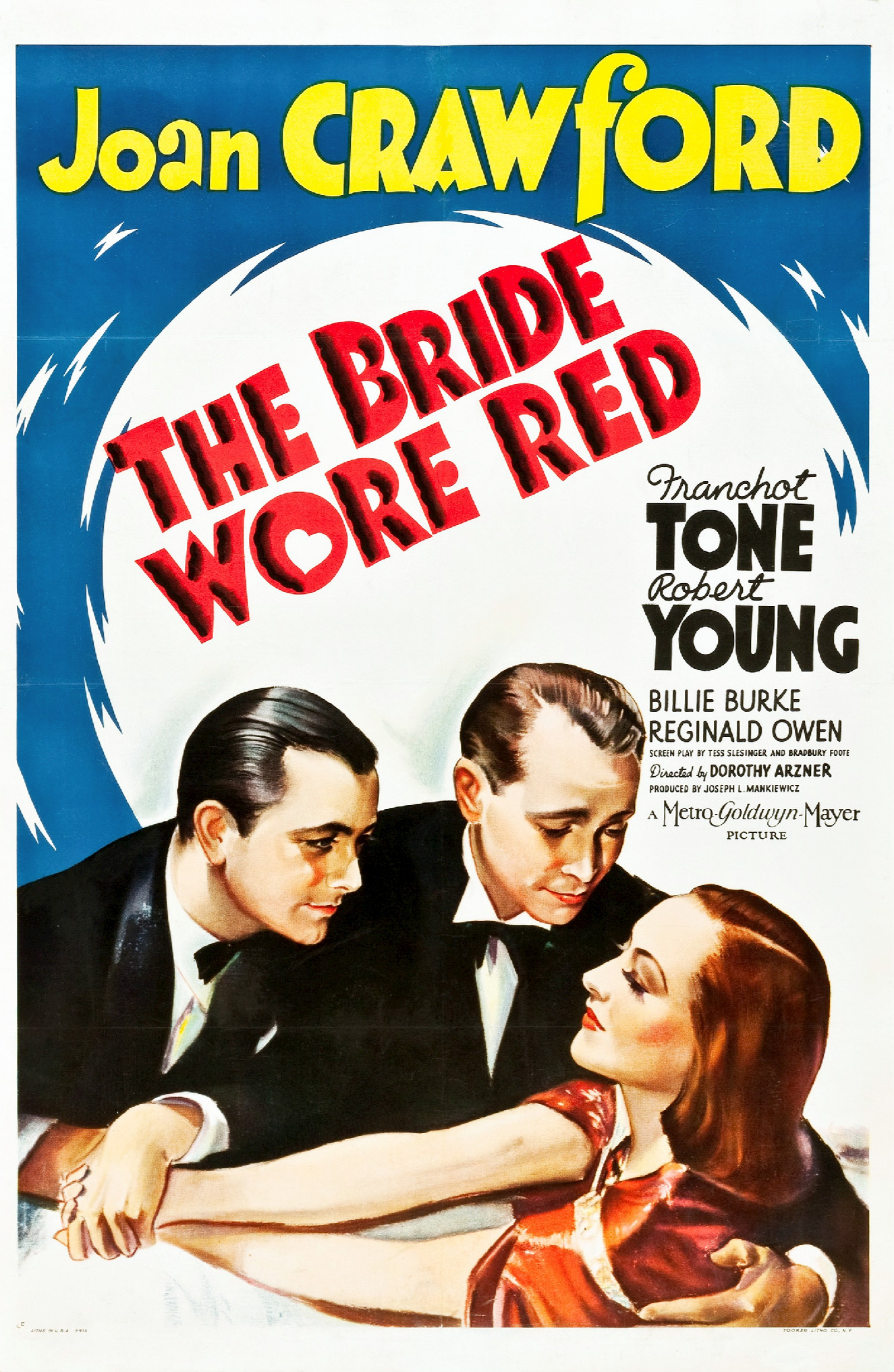 Poster for the 1937 film The Bride Wore Red. There are no copyright markings pertaining to the image as can be seen in the link above. At lower left is "C"-for poster style "C" Litho in USA #479. At bottom right is Tooker Litho Co. NY.